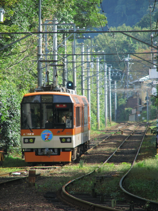 Eizan Electric Railway Type Deo 900 at Yase-Hieizanguchi Station as a chartered train running between Miyake-Hachiman Station and Hase-Hieizanguchi Station. This type of train does not go to the stations in ordinal operation.